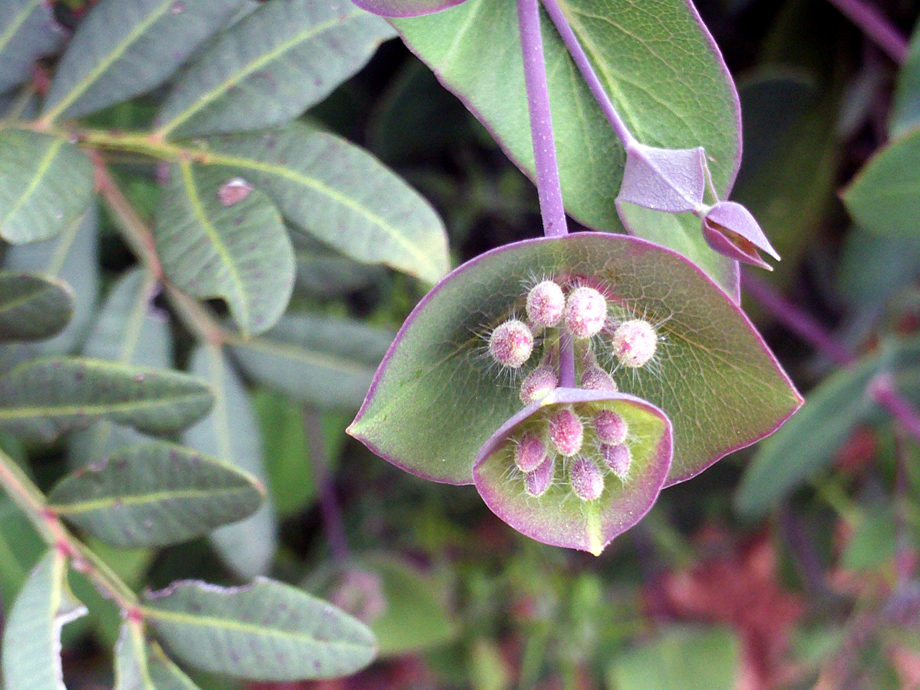 Lonicera implexa blossom, Sierra Madrona, Spain